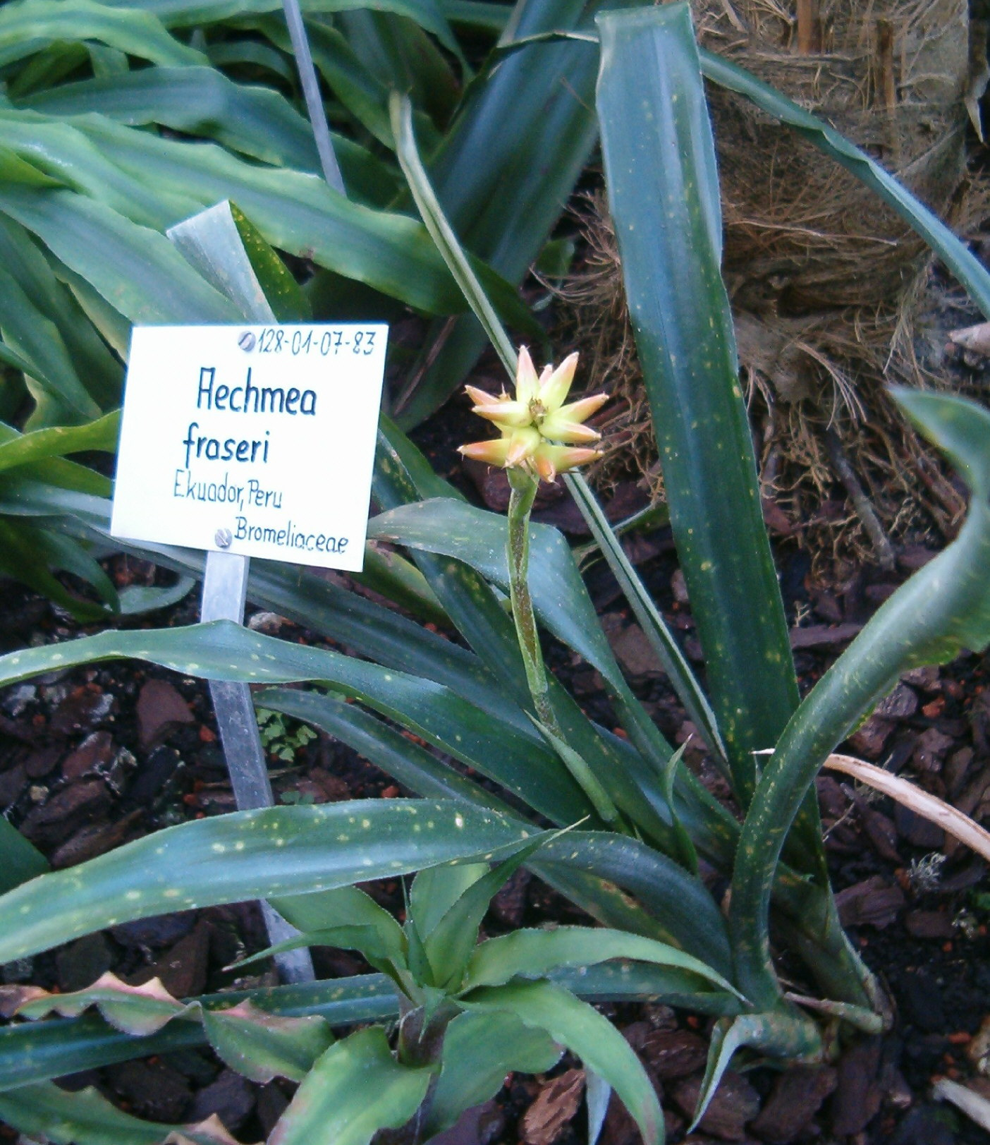 At Botanical Gardens Berlin-Dahlem Species Aechmea fraseri